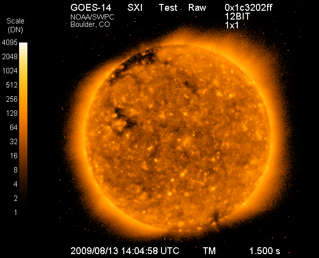 First Public Image from GOES 14 taken with the Solar X-ray Imager (SXI). GOES 14 SXI monitors the Sun’s X-rays for the early detection of solar flares, coronal mass ejections, and other phenomena that impact the geospace environment. This early warning is important because travelling solar disturbances affect not only the safety of humans in high-altitude missions, such as human spaceflight, but also military and commercial satellite communications. In addition, coronal mass ejections can damage long-distance electric power grids, causing extensive power blackouts.